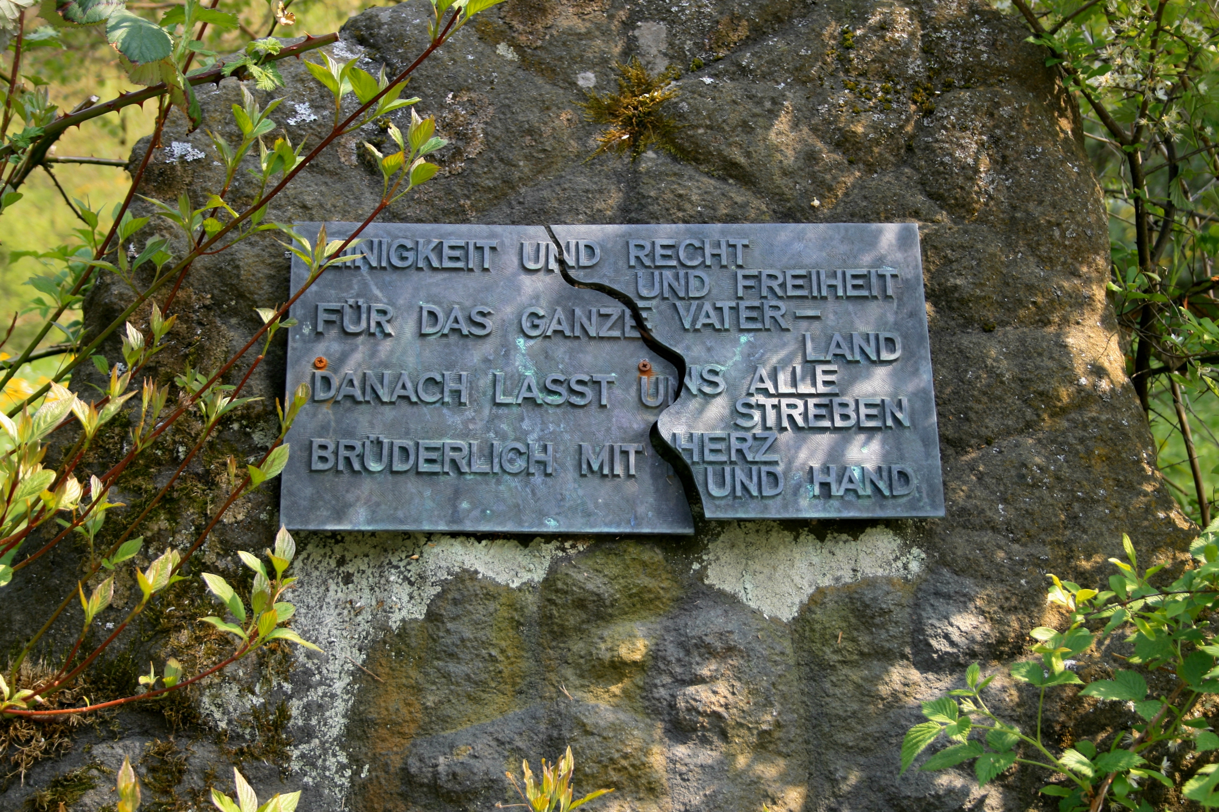 Germany, Hesse, Biedenkopf/Lahn: A plaque on a boulder in the public park of the district office (branch office of the county administration Marburg-Biedenkopf).